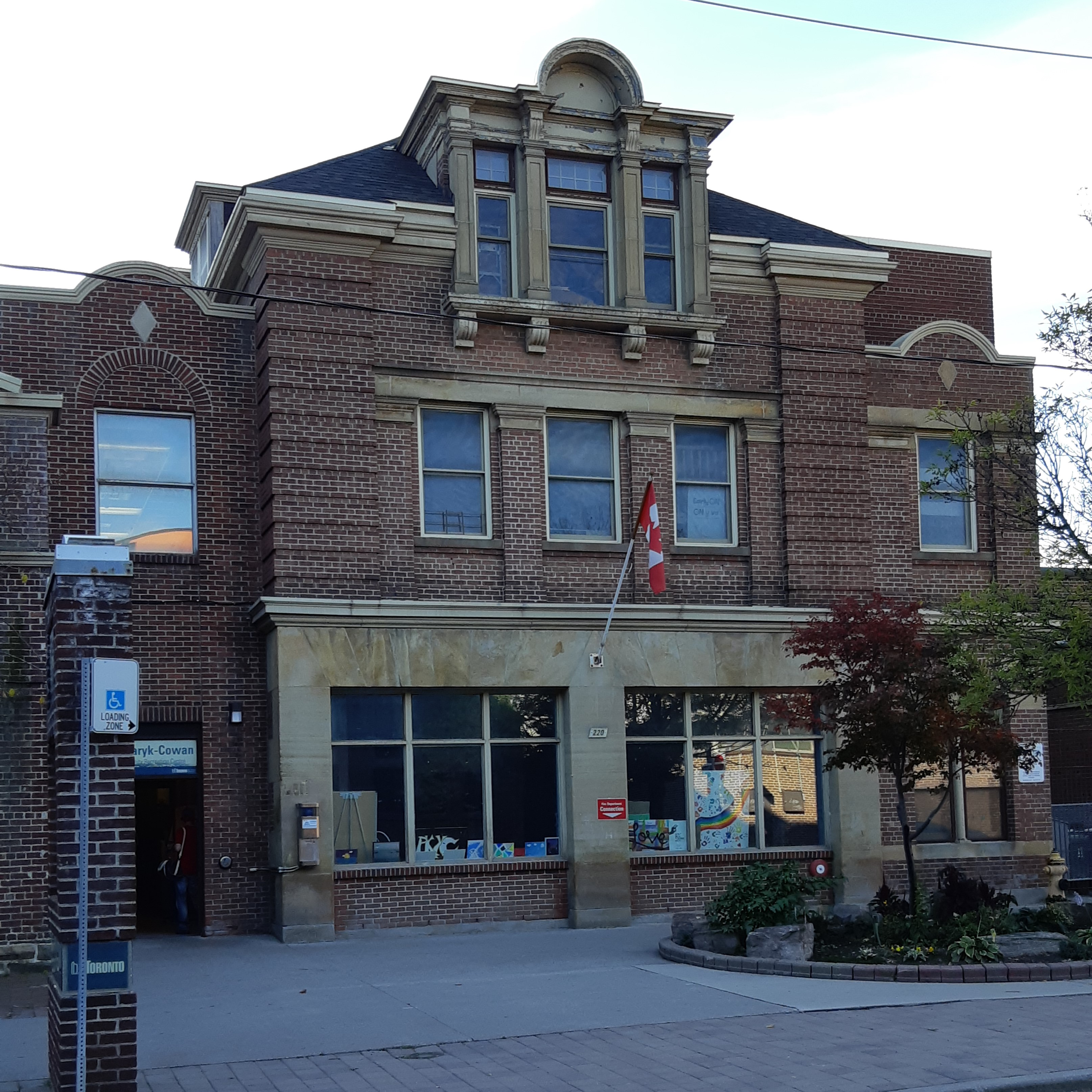 The 1898 former curling rink, roller rink, dance hall, now community centre with full-size basketball court, fitness facilities and community rooms.